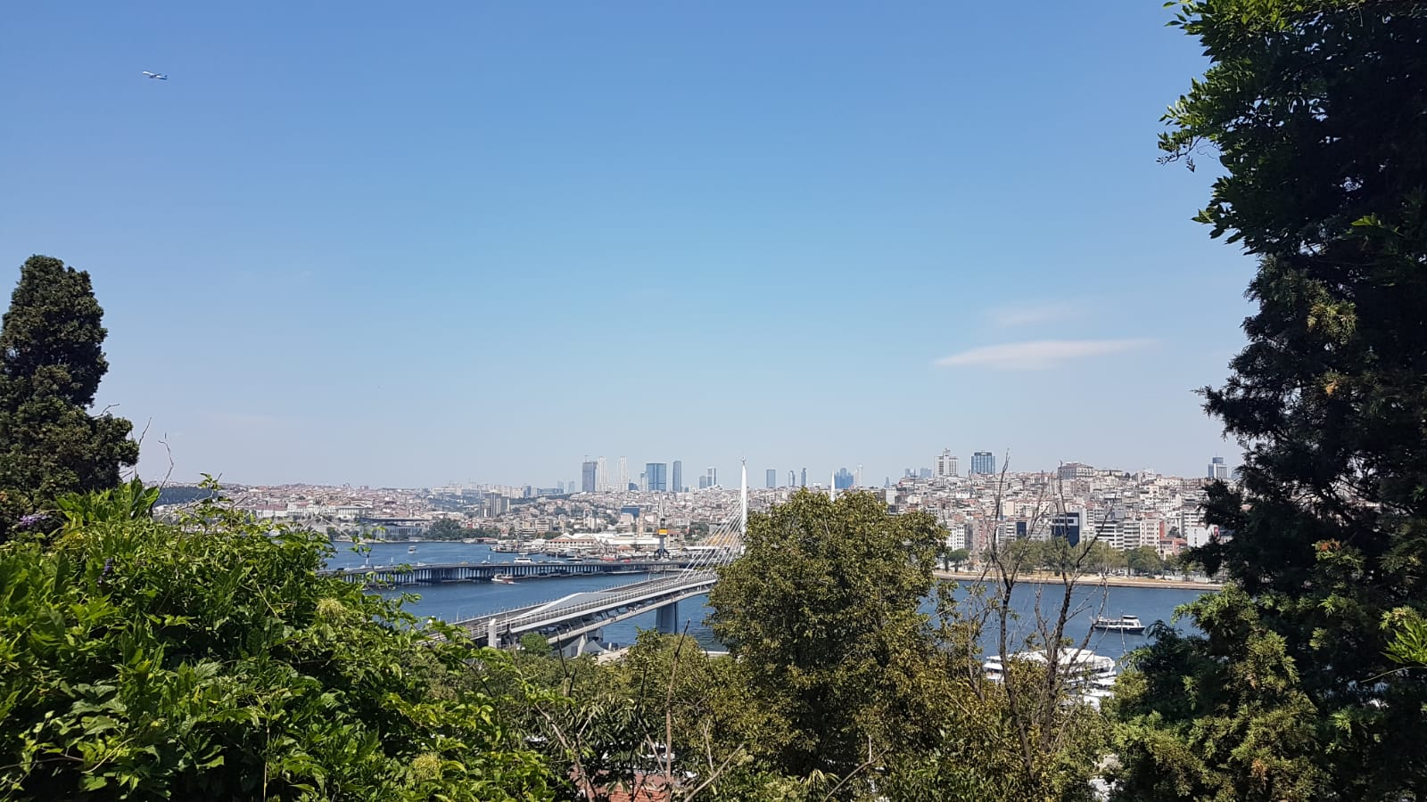 View of İstanbul from Istanbul University Alfred Heilbronn Botanical Garden.